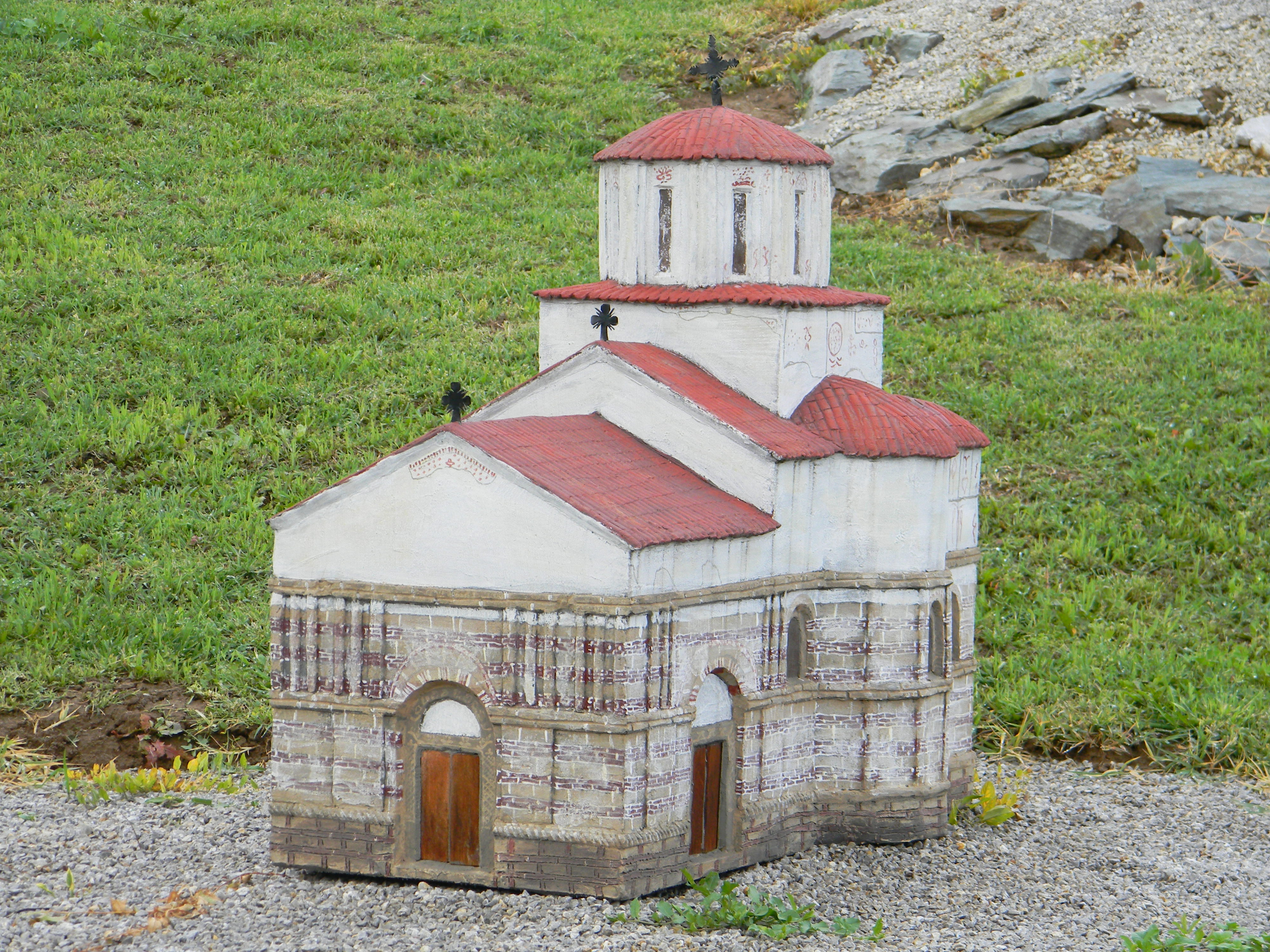 Miniature park in Despotovac, Serbia